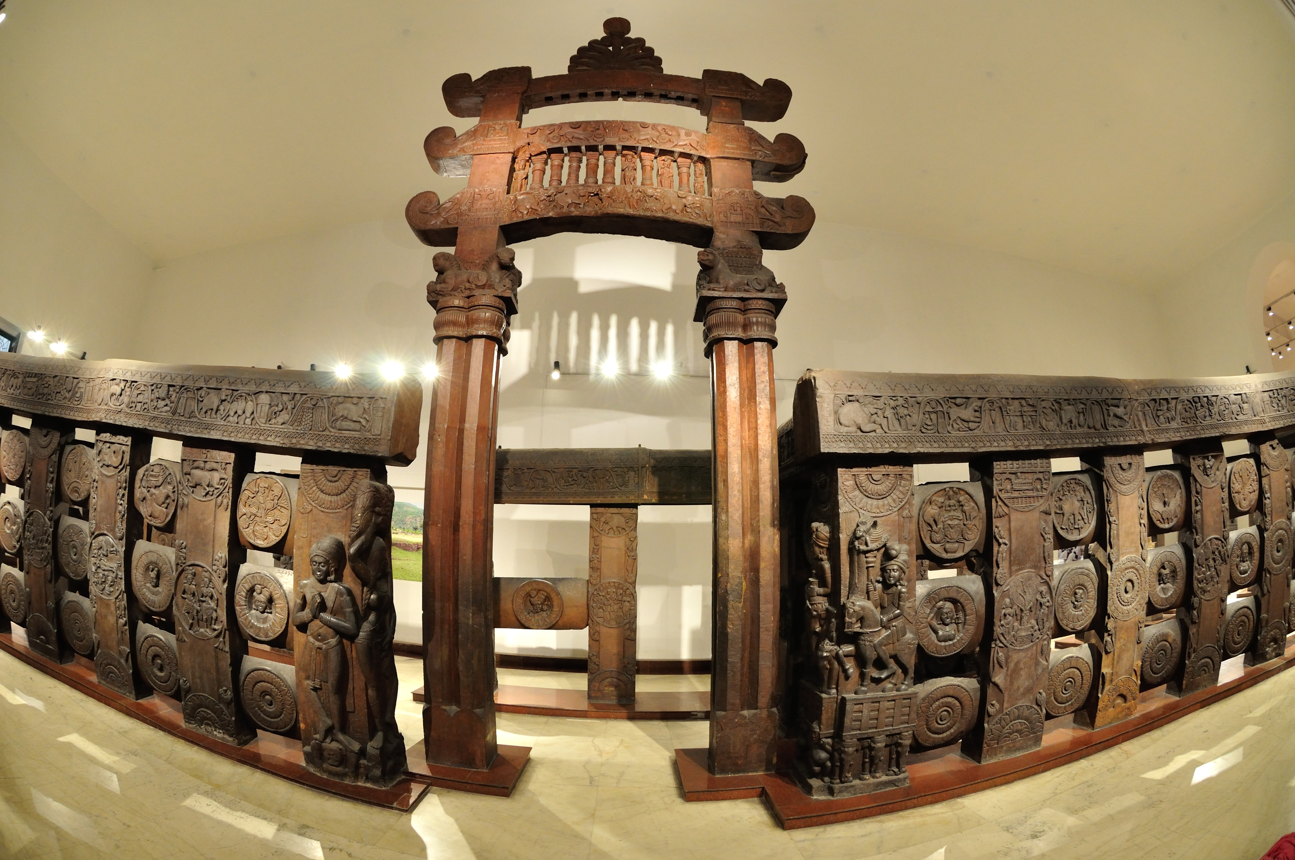 Photographed in Kolkata.